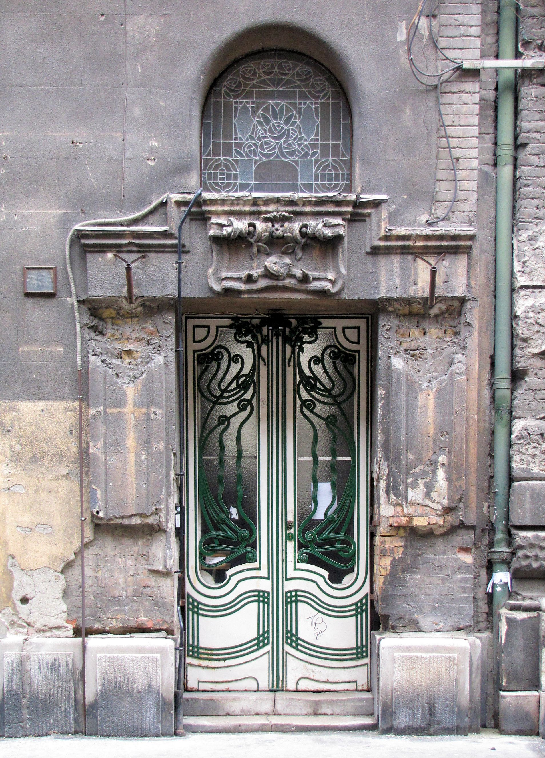 Door of a town house, Budapest 8th District, 8 Csokonai street. Built around 1906, architect: Gyula Fodor.